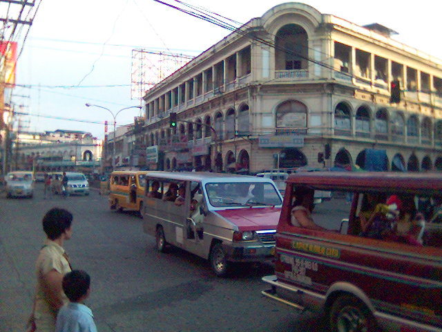 View of Calle Real in Iloilo City, Philippines, looking towards the corner facade of the Eusebio Villanueva Building.